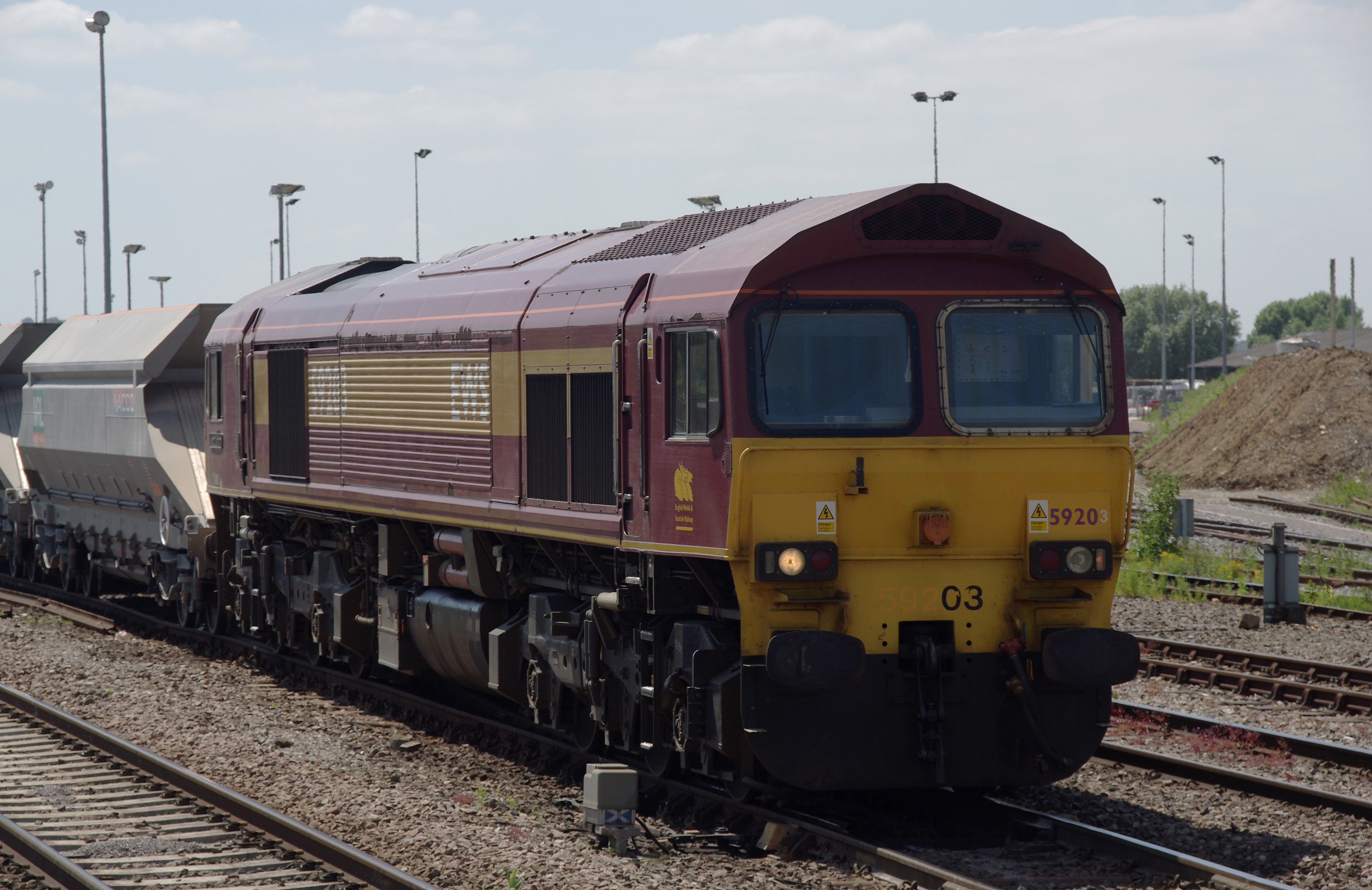 EWS 59203 stands in the sidings at Westbury railway station.